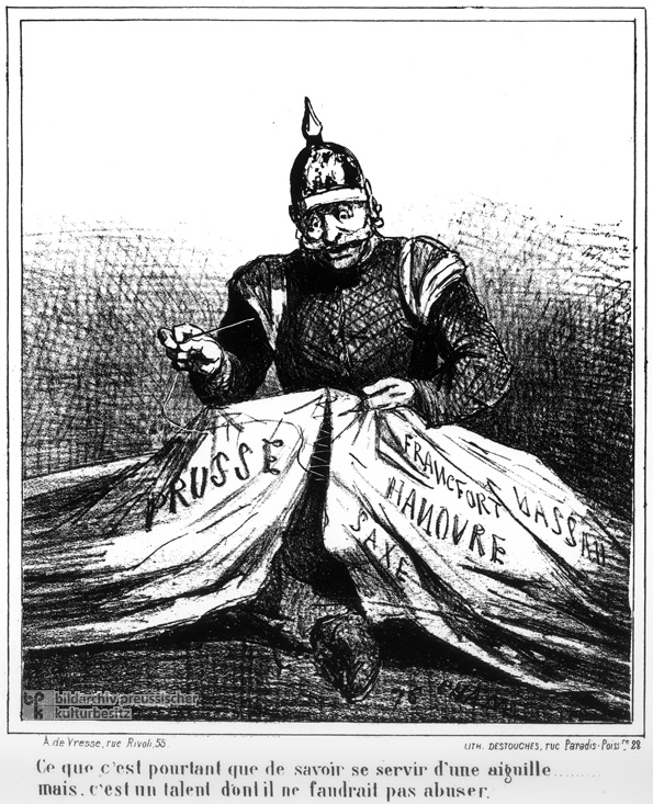 This caricature by Cham appeared in the French journal Le Charivari in September 1866.